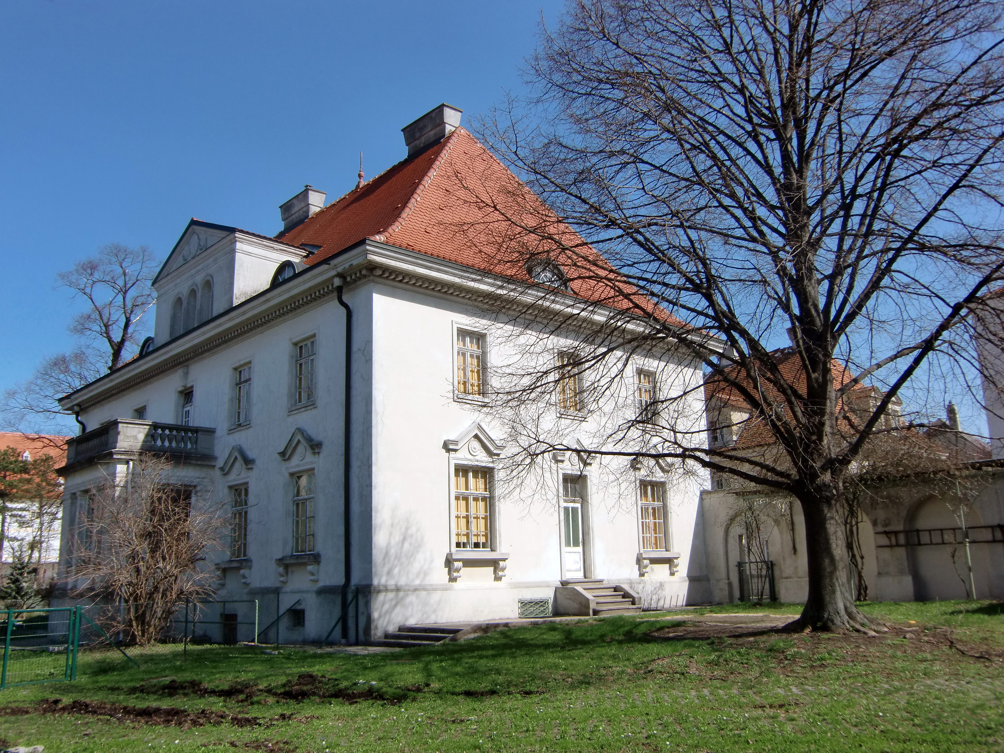 This building in the city of klosterneuburg contain the Maehrisch-Schlesische Museum (Moravian-Silesian Museum). Build in 1922 from the Rostock family.